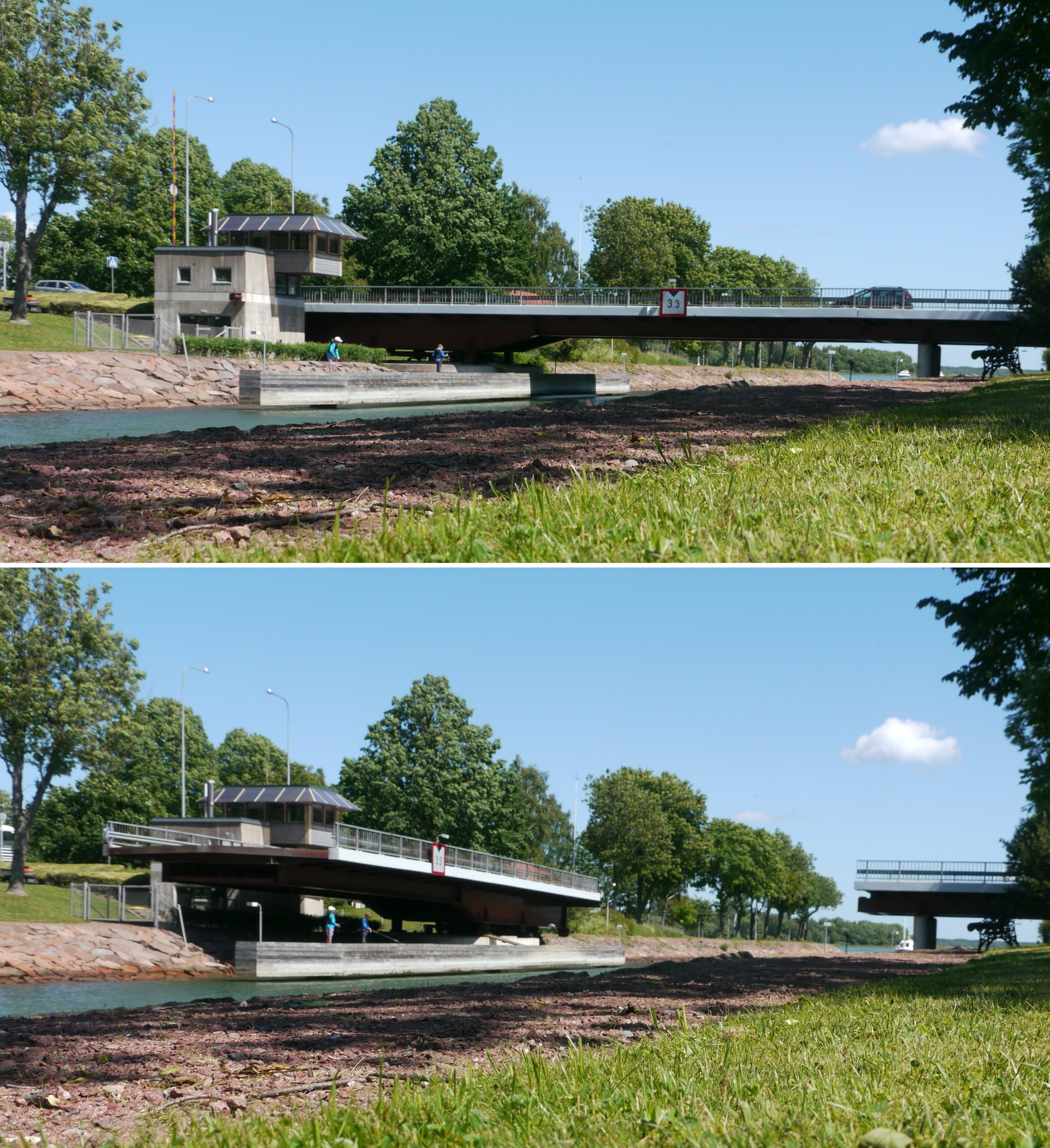 asymmetrical swing bridge (between Lemland and Jomala, Åland), closed and open